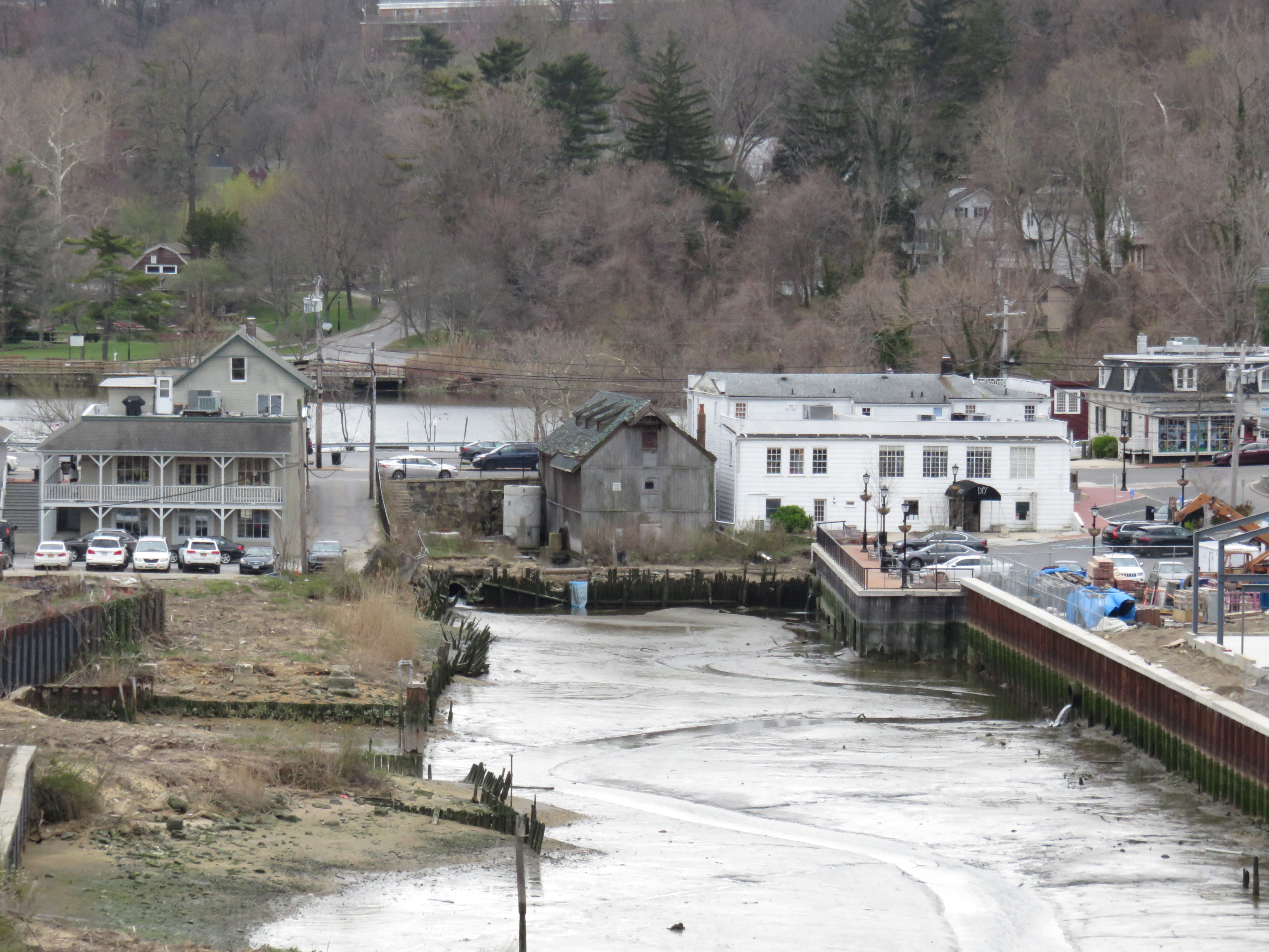 Roslyn Grist Mill viewed from the Roslyn Viaduct in Roslyn, New York in 2016